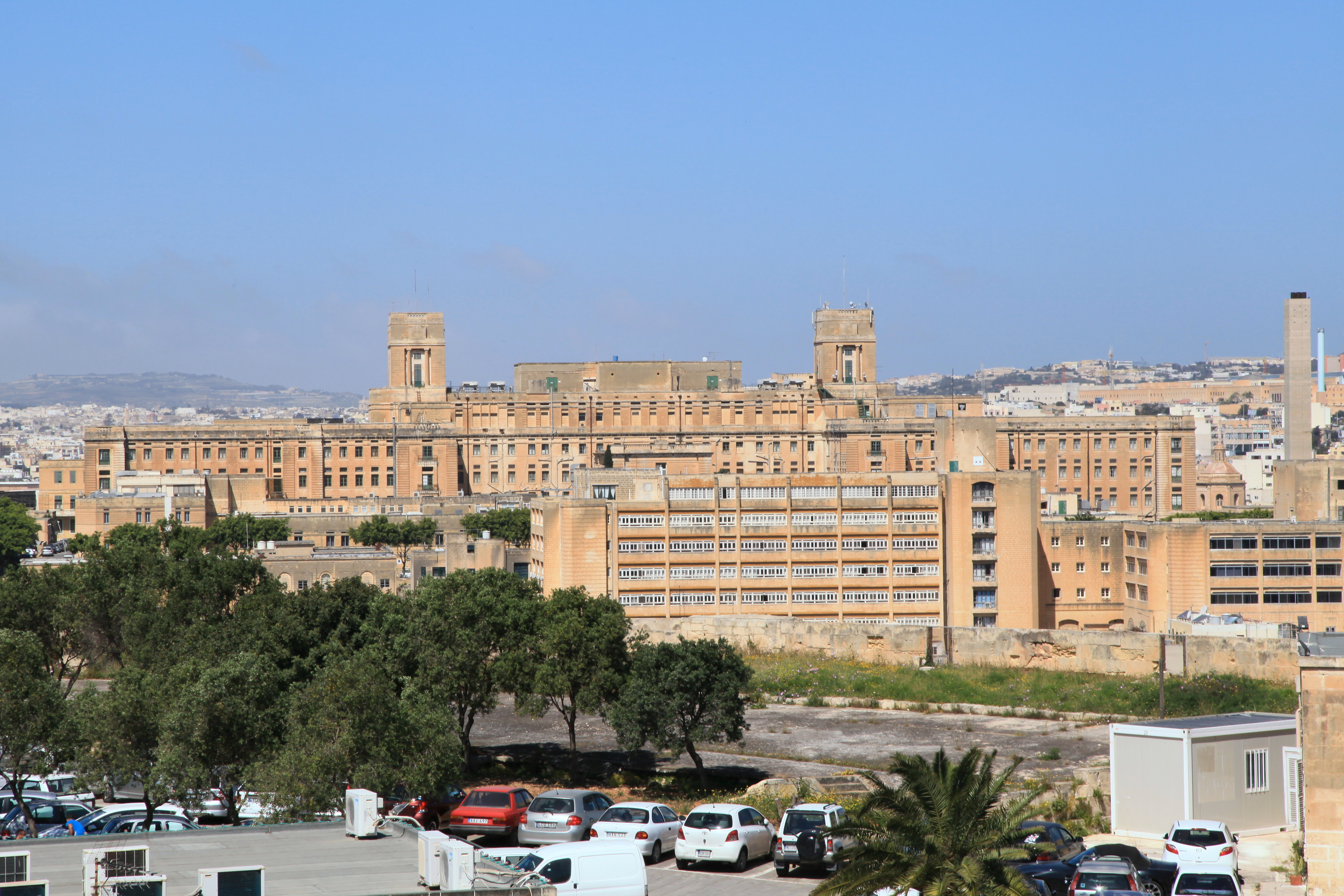 View from Argotti Botanic Gardens in Floriana to the St. Luke's Hospital in Pietà, Malta, Malta